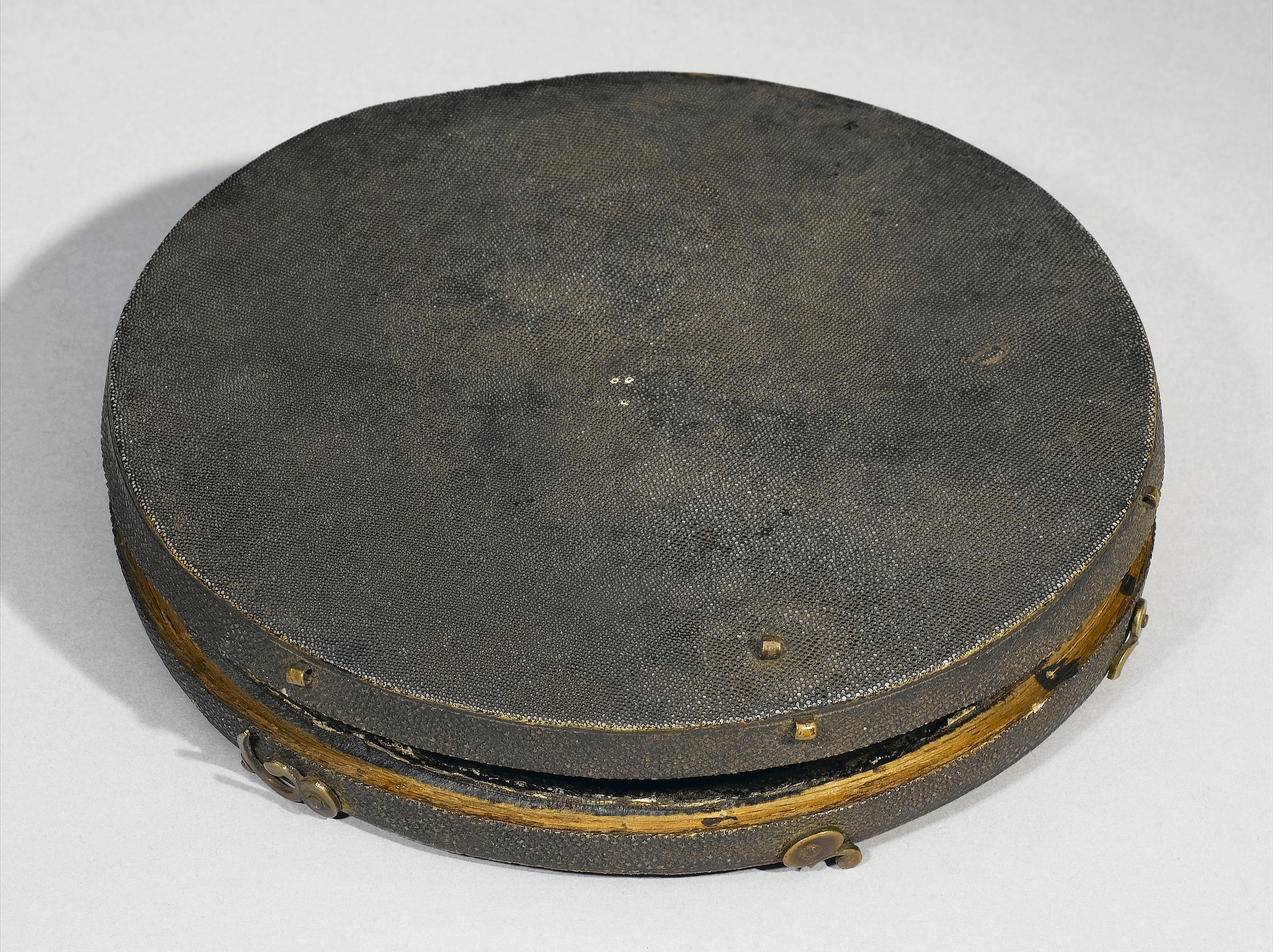 Claude Lorrain mirror in shark skin case, believed at one time to be John Dee's scrying mirror. Top three quarter view. Case closed. Grey background. Wellcome Images